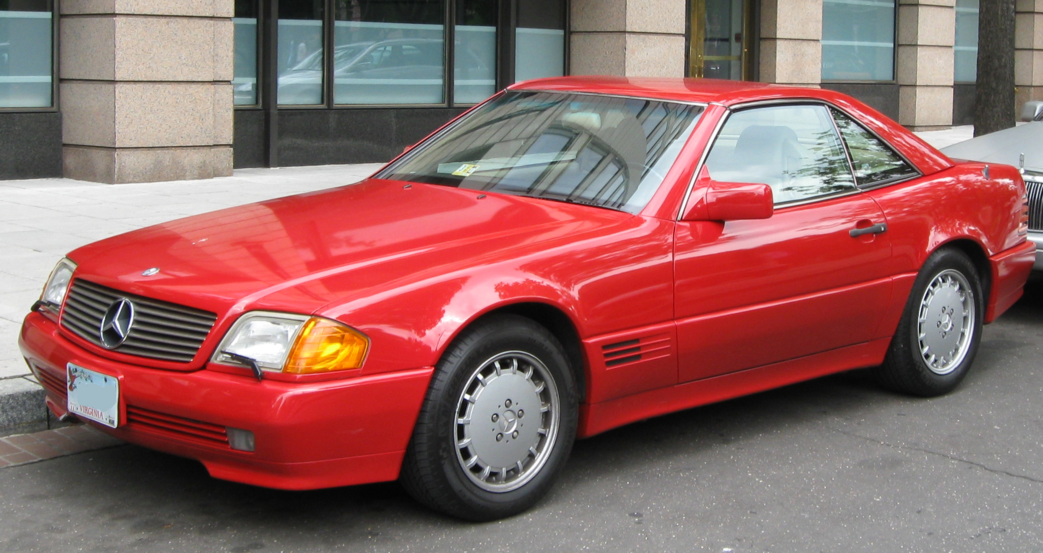 Mercedes-Benz SL photographed in Washington, D.C., USA.